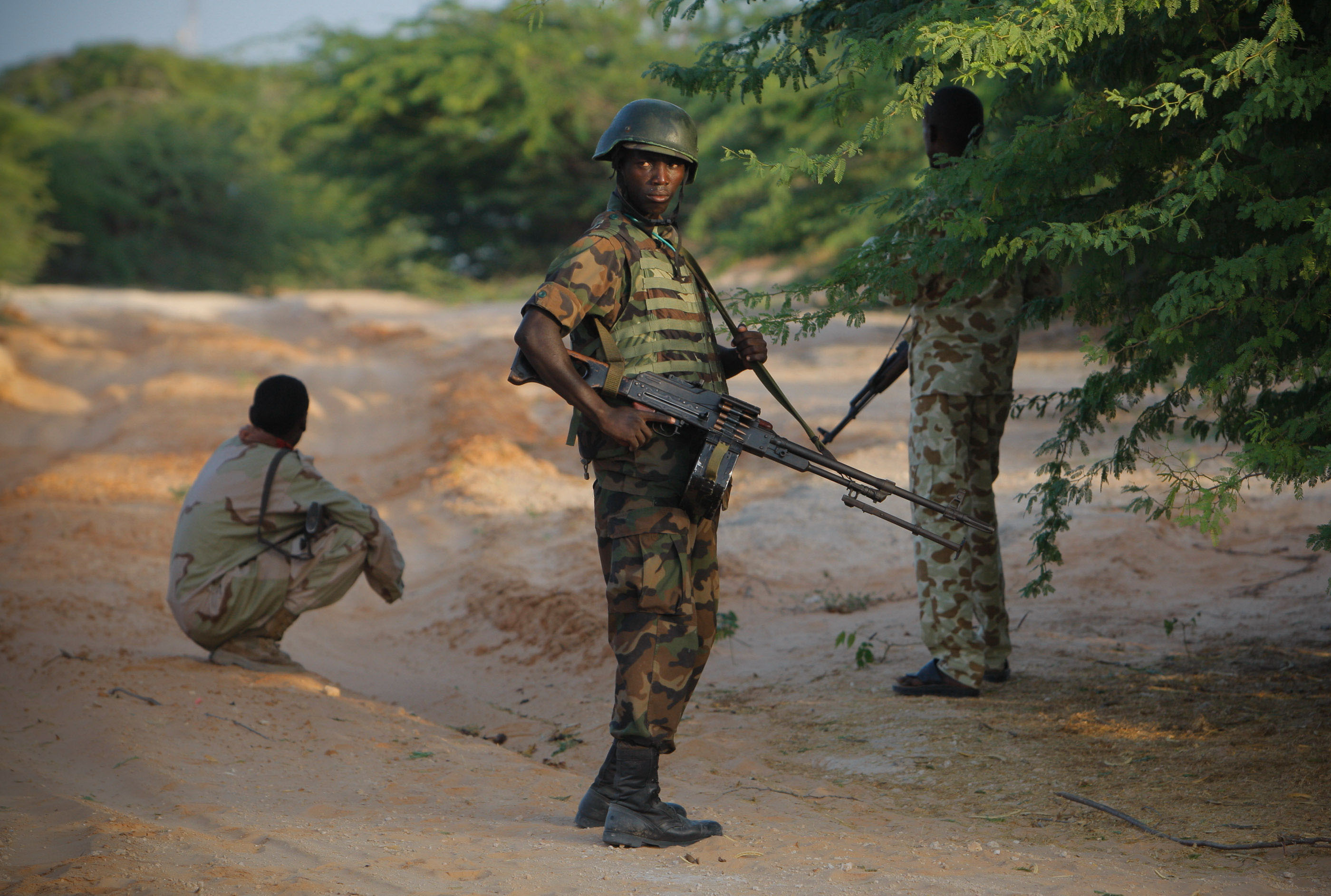 A Ugandan soldier serving with the African Union Mission in Somalia (AMISOM) stands just after sunrise 20 January with troops from the Somali National Army (SNA) during an advance into insurgent Al Shabaab territory. The operation saw SNA forces supported by AMSIOM push 3.5km further north from their previous forward defensive line along the industrial road to take the strategically important area of and around Mogadishu Univeristy, the very furthest northern point of the Somali capital and where the Al Qaeda-linked Al Shabaab planned and carried out attacks against the African Union mission, the Transitional Federal Government (TFG) and targets within the Somali capital.. AU-UN IST PHOTO / STUART PRICE.